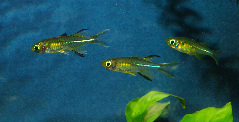 2 males and a female